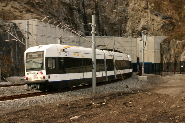 NJ Transit LRT-Train